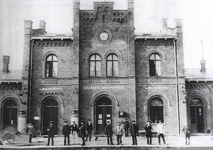 Old train station of Ibbenbüren, Germany, around 1890.